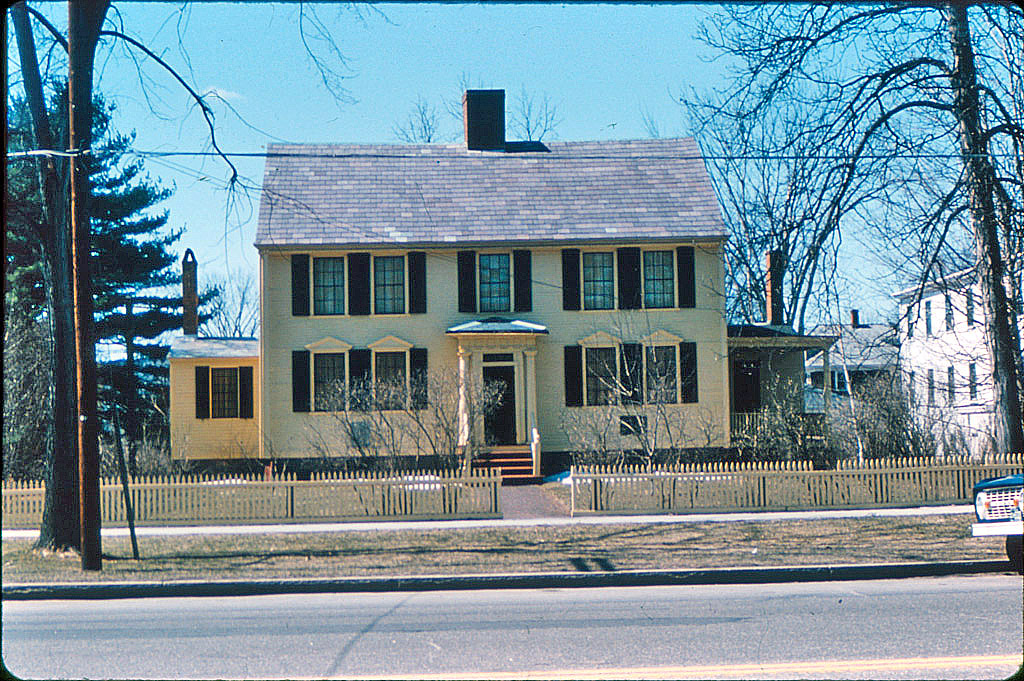 TITLE Wyman Tavern in Keene New Hampshire CREATOR Wardwell, Anne, Keene NH SUBJECT Taverns (Inns) - NH - Keene Houses - NH - Keene DESCRIPTION "The lower portion is the most historically significant area in the city. This was the location of the first settlement and contains a wealth of historically and architecturally important buildings erected over two centuries, the majority of which are residential. Wyman Tavern is the earliest documented house remaining on the street. It is typical of the late Colonial period construction." PUBLISHER Keene Public Library and the Historical Society of Cheshire County DATE DIGITAL 20090129 DATE ORIGINAL 1975 RESOURCE TYPE slides FORMAT image/jpg RESOURCE IDENTIFIER hsykfok032 RIGHTS MANAGMENT No known copyright restrictions.